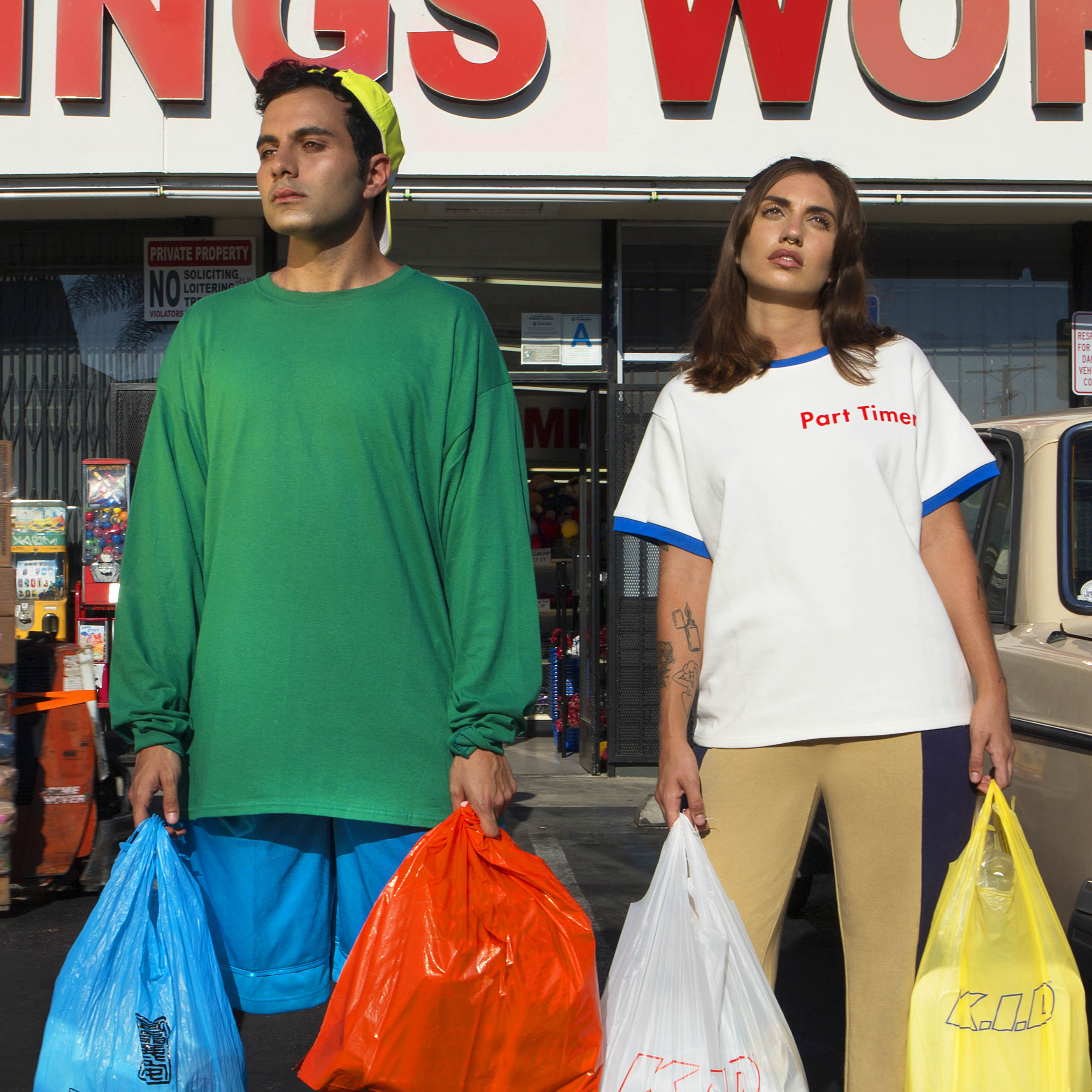 press